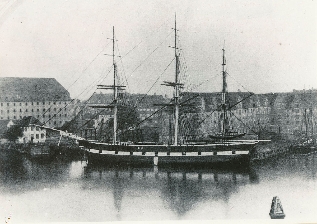 The frigate Havfruen at Christianshavn in Copenhagen while it was owned by Det Kjøbenhavnske Skibsrhederi